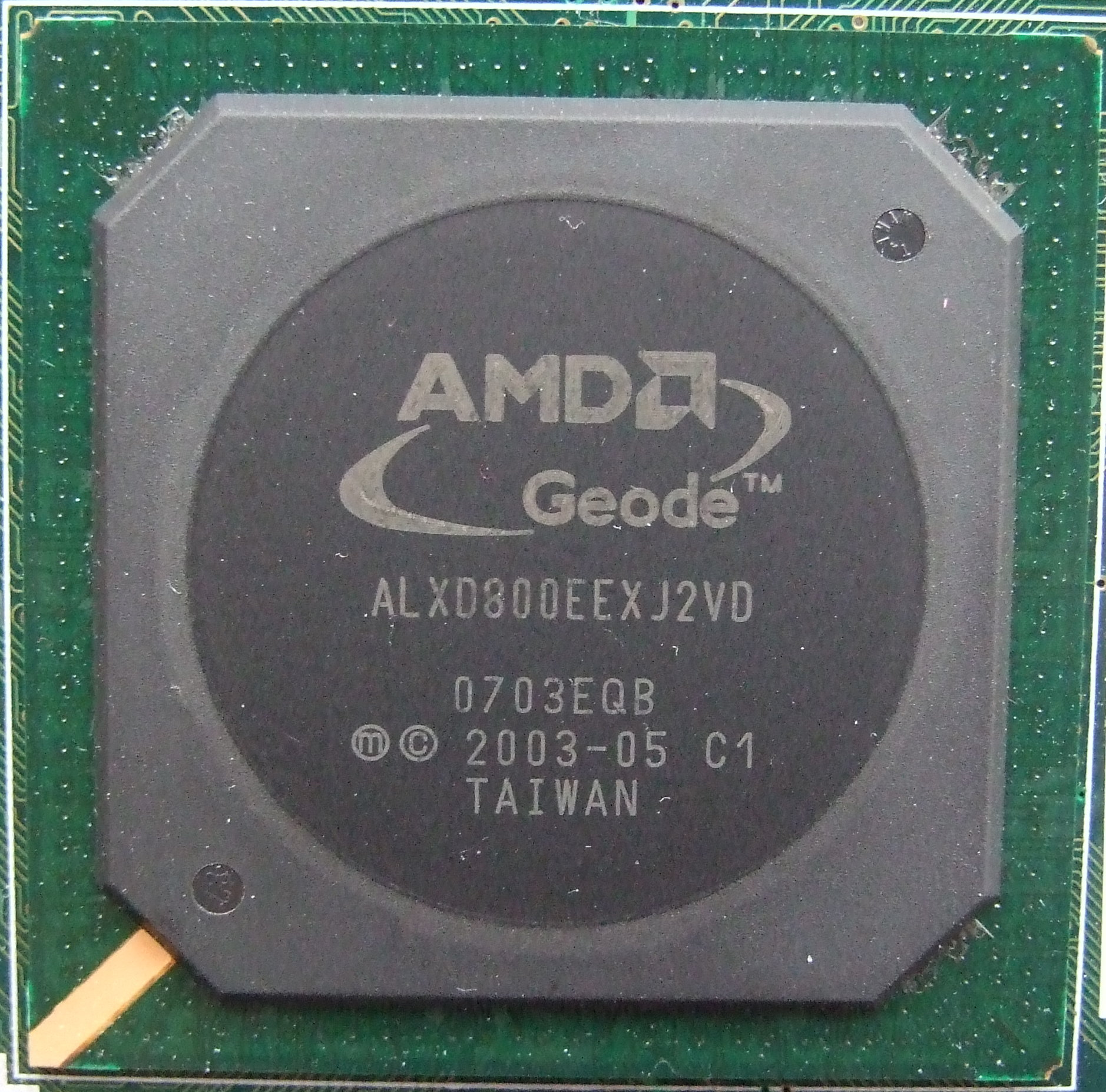 AMD Geode LX 800 CPU photo on Alix.1C board by PC Engines